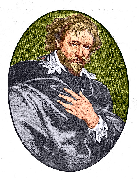 Portrait of Peter Paul Rubens